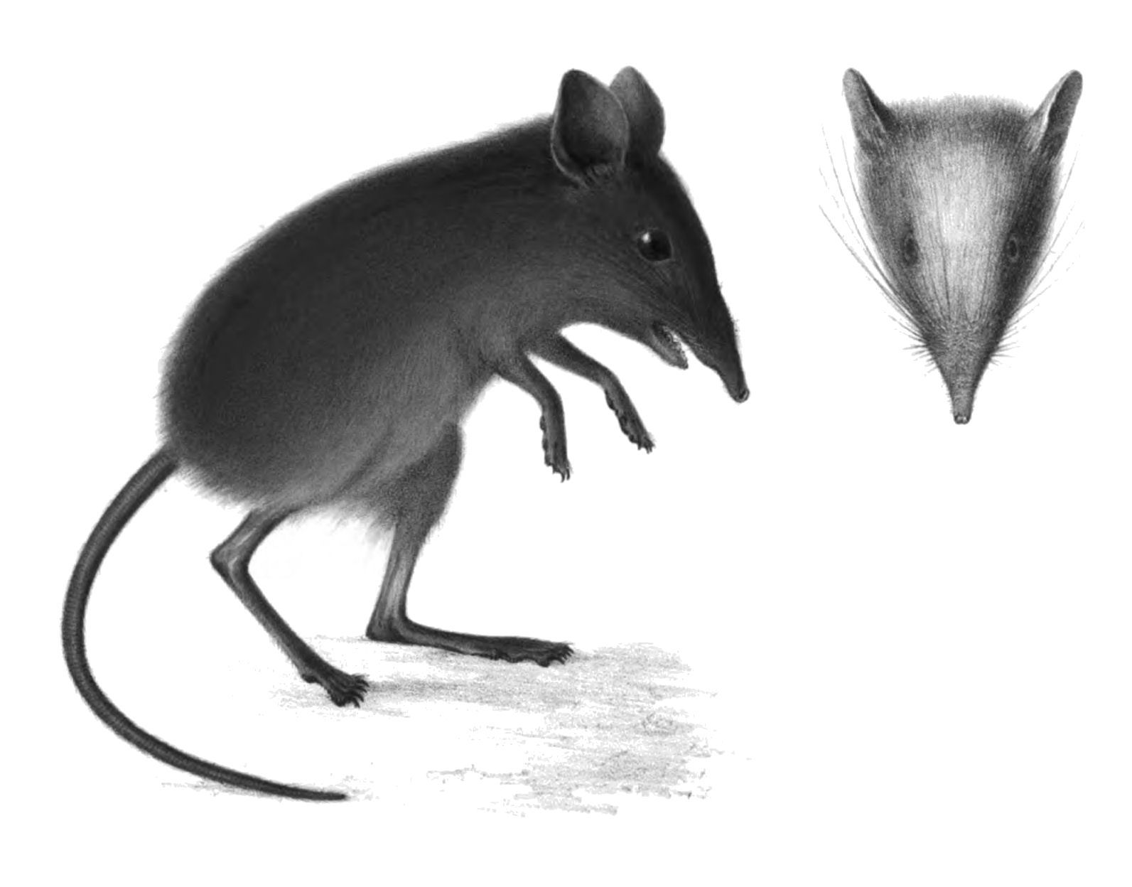 Drawing of Elephantulus fuscus, printed in the species description (under the scientific name macroscelides fuscus) published by Wilhelm Peters: Naturwissenschaftliche Reise nach Mossambique: auf Befehl seiner Majestät des Königs Friedrich Wilhelm IV in den Jahren 1842 bis 1848 ausgeführt. Berlin, 1852, pp. 1–205 (pl. 19)